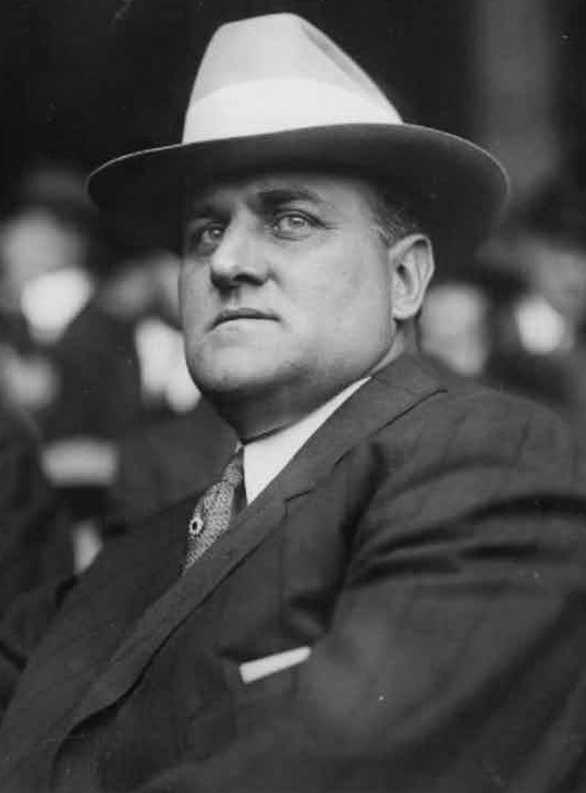 National League president John K. Tener